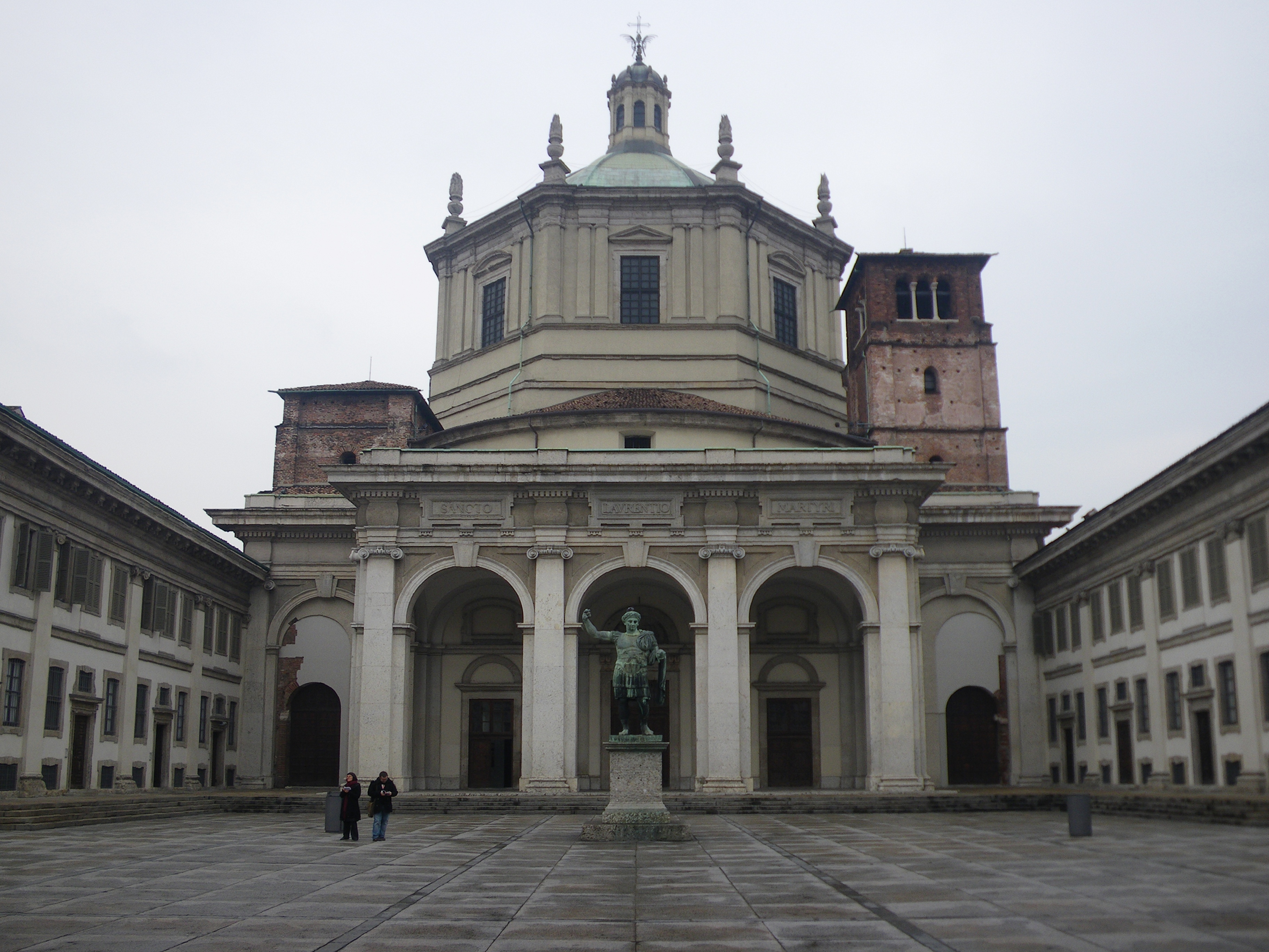 Basilica of San Lorenzo, Milan (Italy)